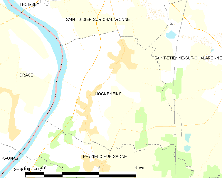 Map of French commune: Mogneneins Map commune FR insee code 01252.png